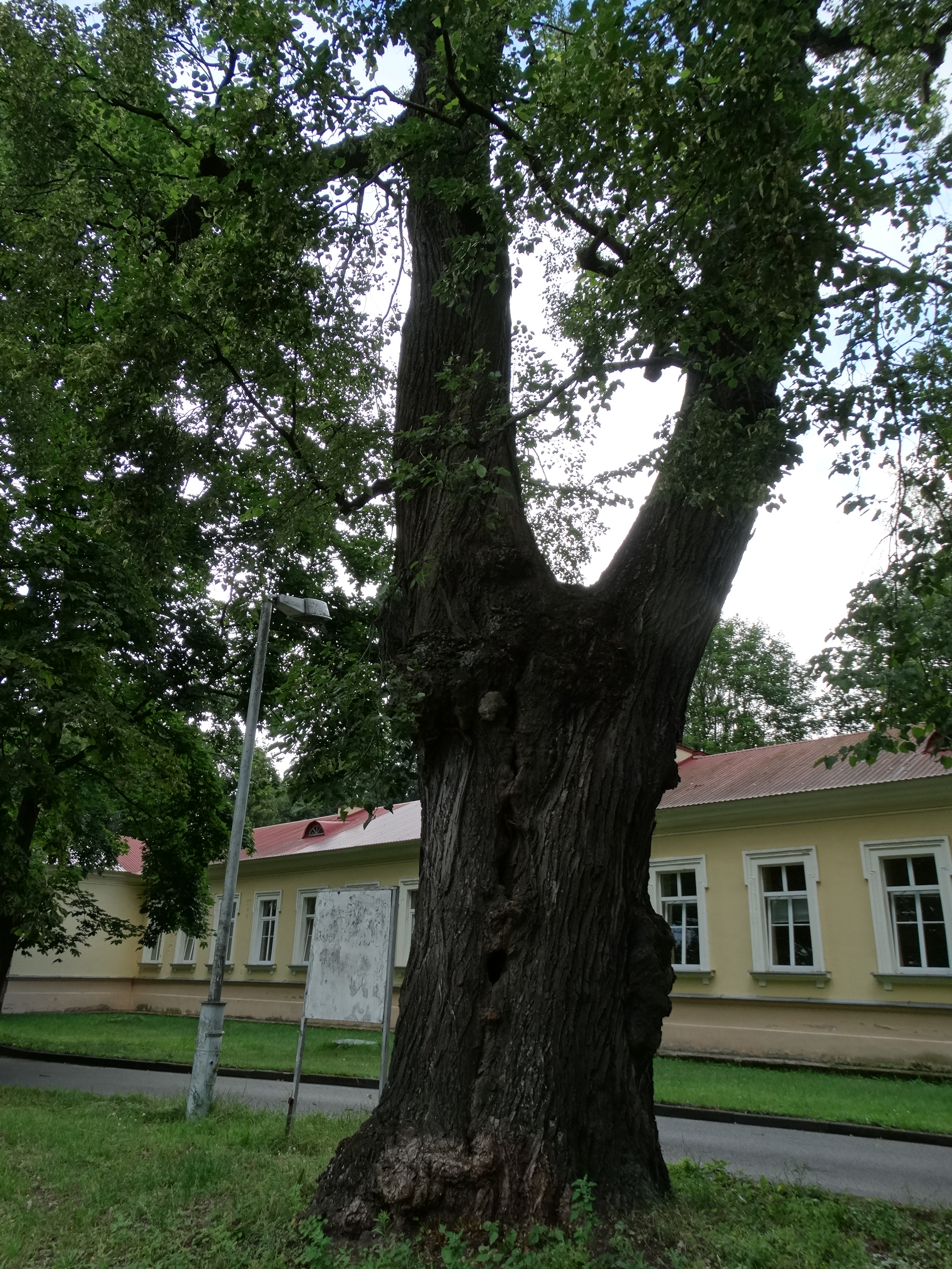 Lime tree by Sapieha Palace in Antakalnis, Vilnius, Lithuania